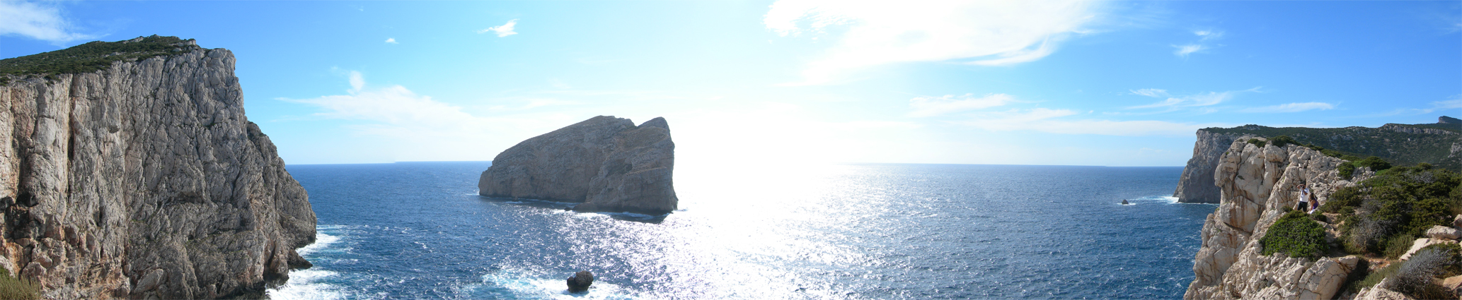 Capo Caccia and Isola Foradada, near Alghero, Sardinia, Italy.